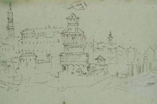 The Baumhaus and the Vorsetzen from the Kehrweider, with the Spire of the Michaeliskirche behind